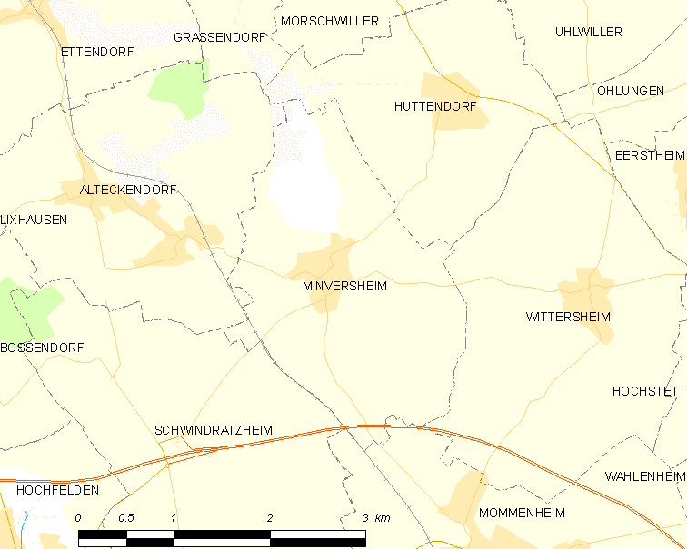 Map of French municipality